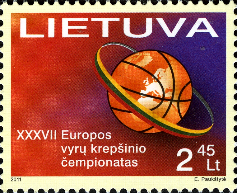 Name: “XXXVII EUROPEAN MEN’S BASKETBALL CHAMPIONSHIP” Issue date: 2011 01 22 Description: After a 72 years break Lithuania will host the European Men’s Basketball Championship of 2011, which will be held from August 31 until September 18. The 24 strongest European men’s basketball teams will compete for medals and qualify for the London 2012 Olympic Games. The most outstanding European basketball players will show their talent for the residents and guests of six Lithuanian cities. The group matches of the tournament will be played in Alytus, Klaipėda, Šiauliai and Panevėžys. Afterwards the strongest 12 teams of the Old Continent will gather in Vilnius and the champion and prize winners will be announced in the new Kaunas Arena, which is the largest arena in the Baltic countries. Artist E. Paukštytė. Offset. Art paper. Stamp – 32,25x26 mm. Perf.14¼x14. Sheet of 9 stamps (3x3). The upper and lower margins of a sheet are with inscription. Face value: 2,45 Lt. Edition: 180 000. Printed in "Österreichische Staatsdruckerei GmbH" printing-house in Austria (Vienna). Price LTL: 2.45